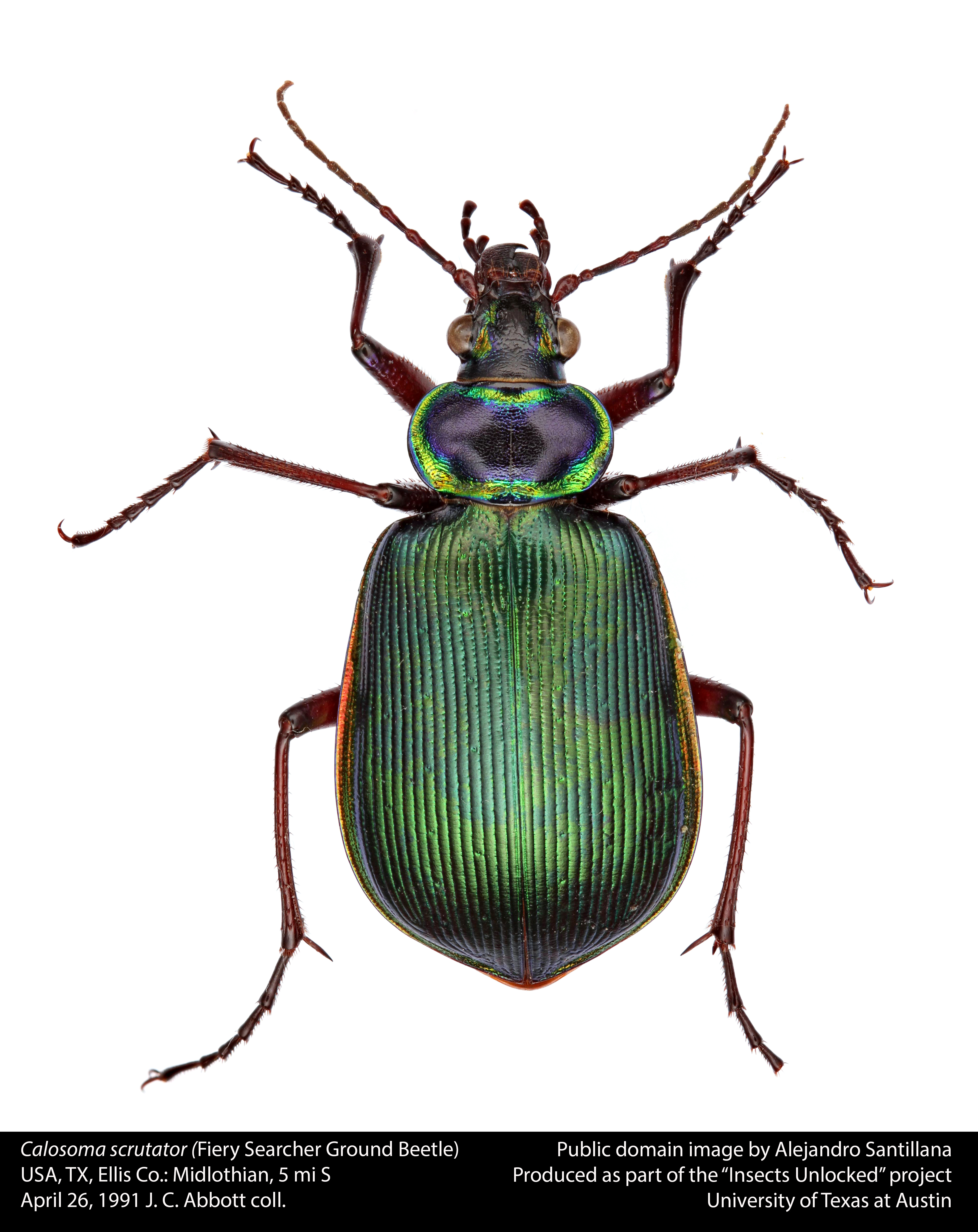 Calosoma scrutator by Alejandro Santillana "Insects Unlocked" Project University of Texas at Austin, USA. Calosoma scrutator det. J. C. Abbott Feb 1993 Texas: Ellis Co. Midlothian, 5 mi S 26 April 1991 coll. John C. Abbott This image was created as part of the Insects Unlocked project at the University of Texas at Austin. Based in the UT insect collection at Brackenridge Field Laboratory, part of the Department of Integrative Biology. Do not crop: This image is used on one or more sister projects, where its entire contents are wanted. If you crop it, please save the new image separately, and do not overwrite this